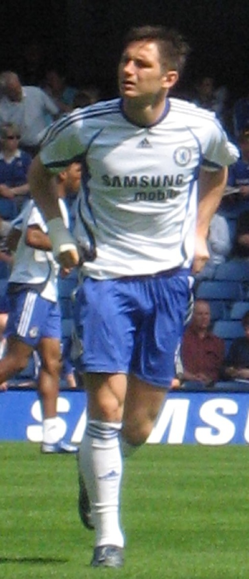 Of Chelsea's current players, Frank Lampard has made the most appearances and scored the most goals. Lampard warming up for Chelsea.